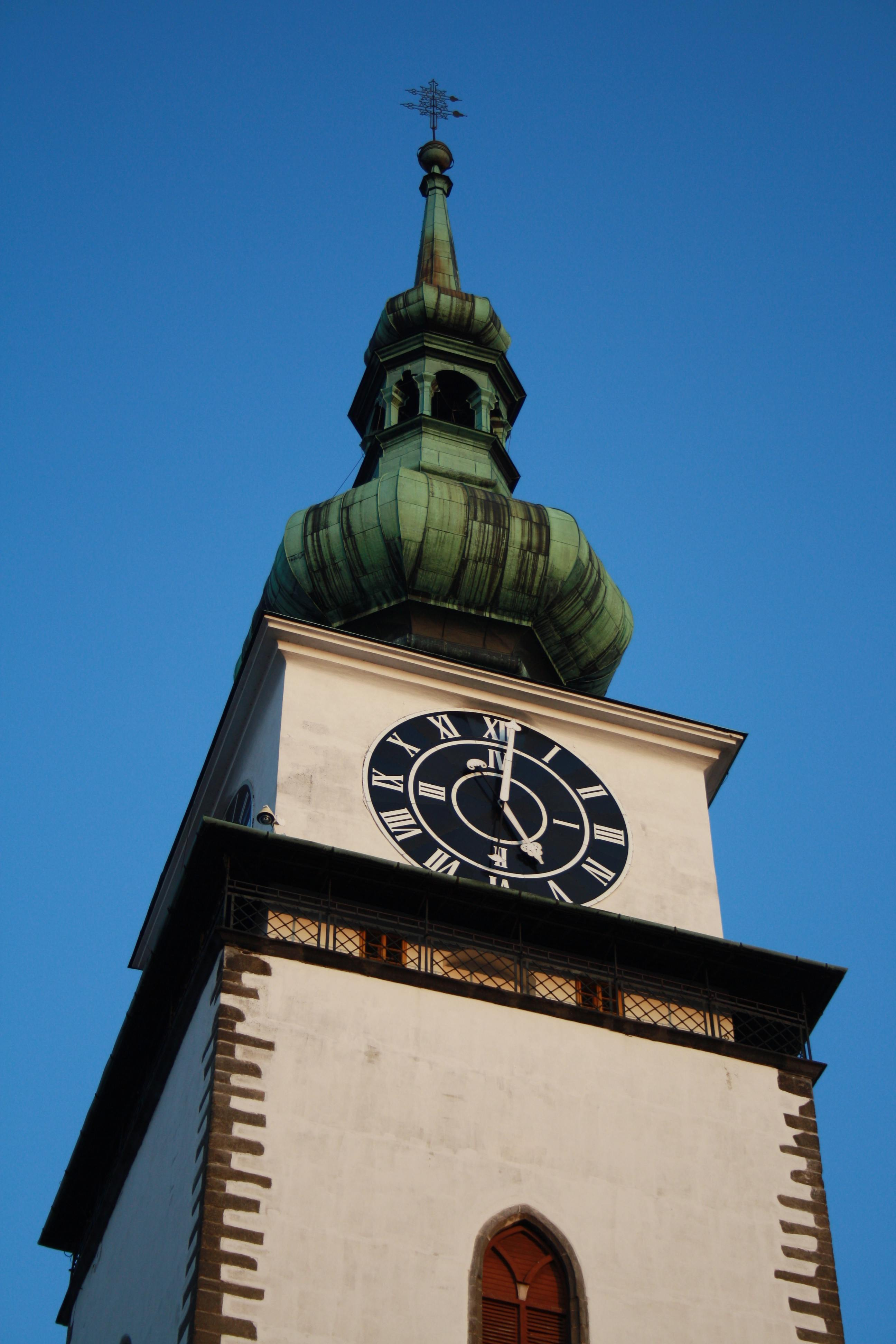 Top of city tower in Třebíč, Czech Republic.